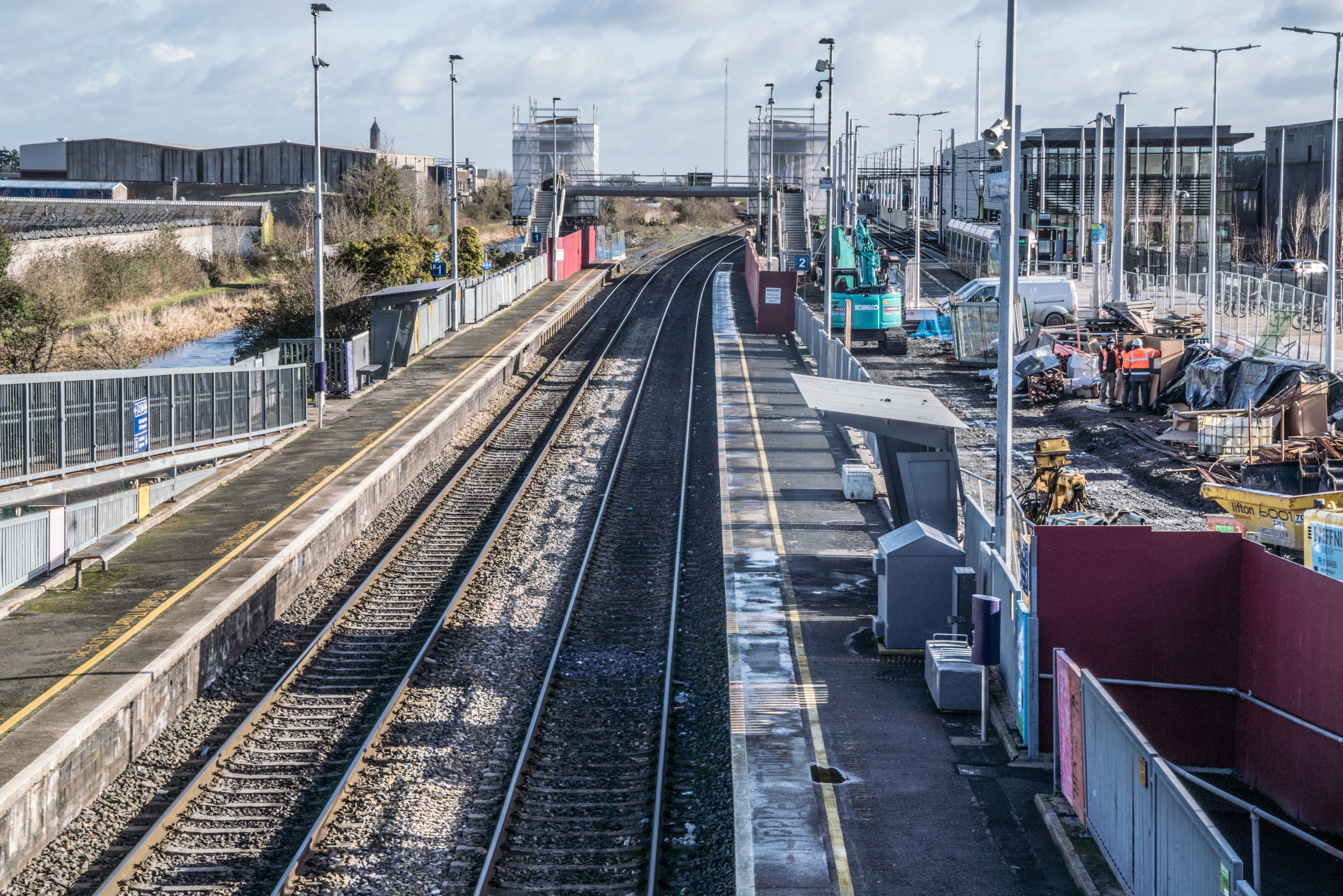 For most of my life I have used public transport and the one constant is that CIE has never understand the concept of integration and they constantly ignore new opportunities until they are forced to act. Broombridge station always had a bad reputation, mainly due to anti-social behaviour, and I have avoided it as do many others. Because the new Luas Tram service now terminates at Broombridge I has expected to see see some positive changes but sadly I was wrong. Despite claims to the contrary CIE has not made any real attempt to integrate with other public transport services which is typical of the way that they operate. The train Broombridge railway station is a bare-bones operation featuring nothing more than two ugly vandal-proof metal shelters and tag-on units. There are no staff, no ticket machines, and no realtime information screens. The lack of realtime screens makes it close to impossible for tram users to switch from tram to train service. Elsewhere in Europe one would expect to arrive by tram and immediately and easily switch over to the train service or at the very least know how long one has to wait for a connection. There is some ongoing work at the station and it would appear that they are installing a pedestrian bridge to connect the train station with the tram stop but as they had many years to prepare this facility should have been in place well before the new tram service began.